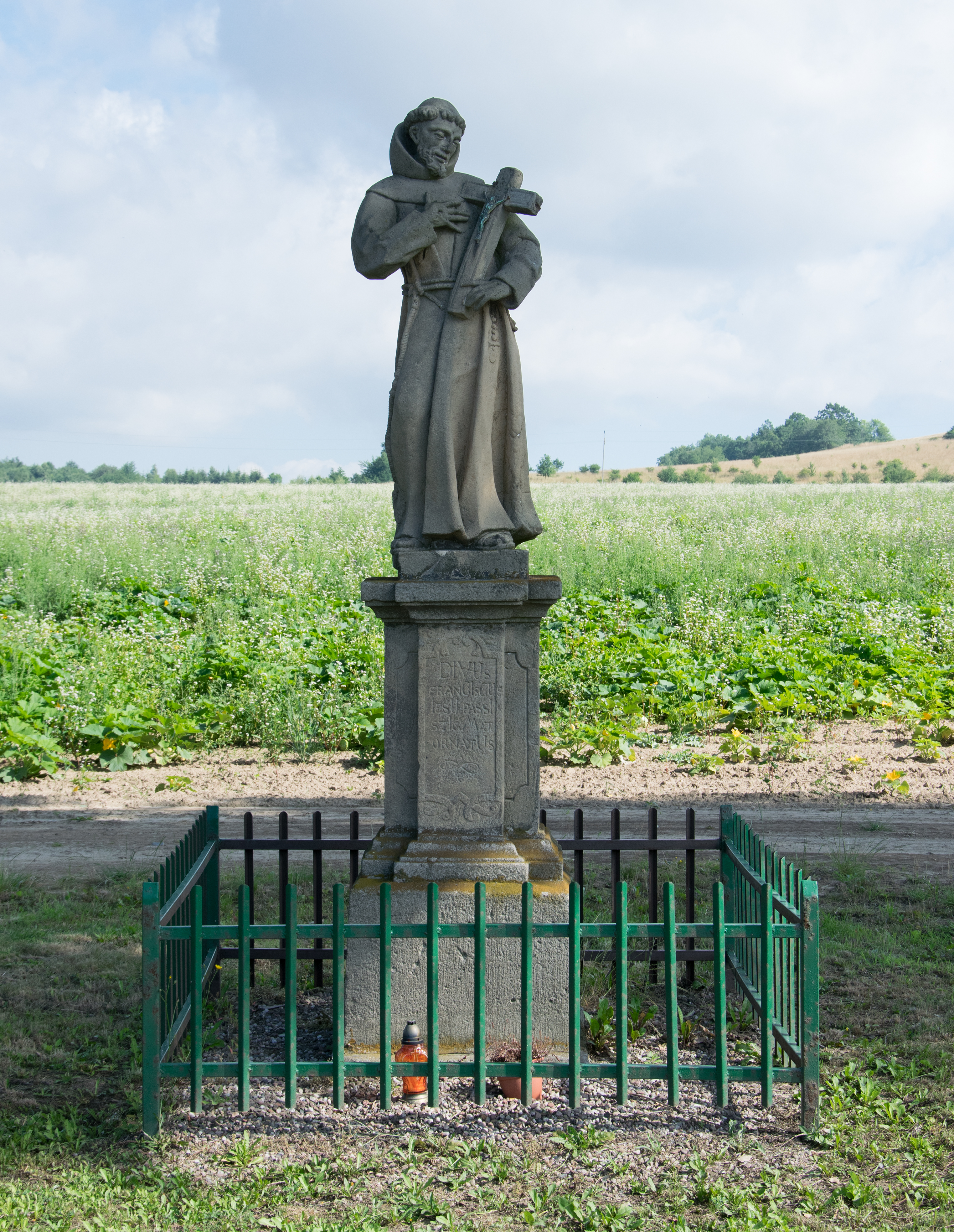 Sculpture of Francis of Assisi in Jaszkówka